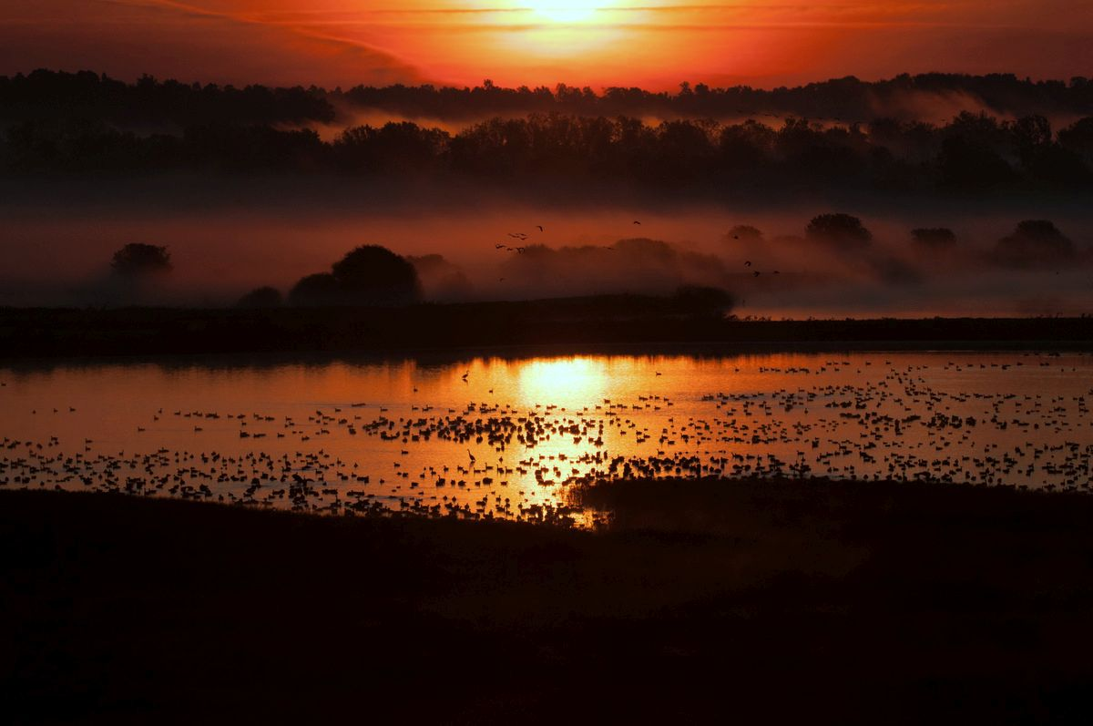 A fall day dawns over Knox Marsh at Montezuma National Wildlife Refuge. Photo: Doug Racine/USFWS